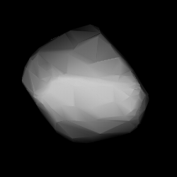 3D convex shape model of 5130 Ilioneus, computed using light curve inversion techniques. J. Hanuš, J. Ďurech, M. Brož, B. D. Warner (June 2011). "A study of asteroid pole-latitude distribution based on an extended set of shape models derived by the lightcurve inversion method". Astronomy and Astrophysics 530: A134. ISSN 0004-6361. arXiv